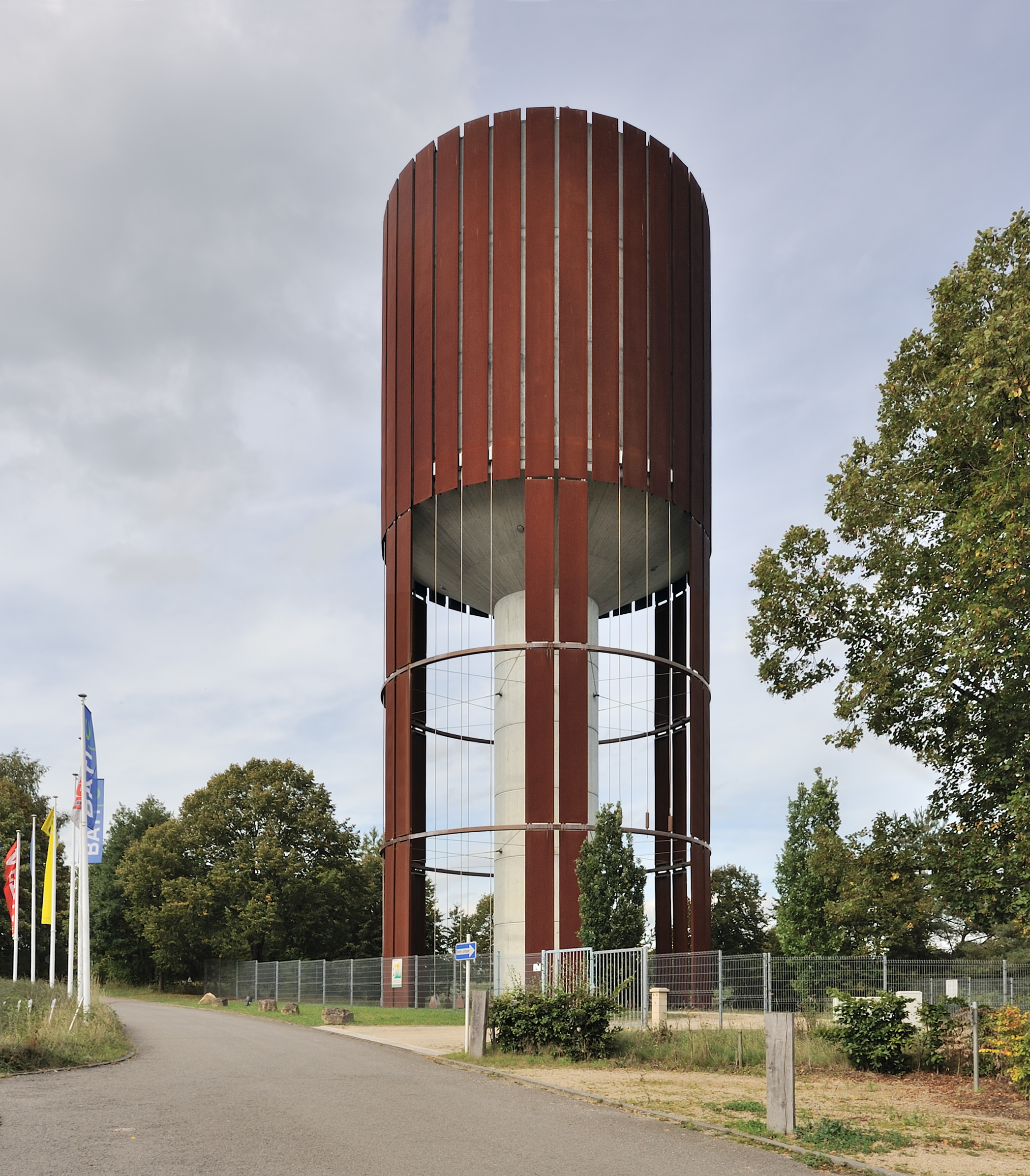 Luxembourg, Steinfort: Water tower at Kinneksbierg.